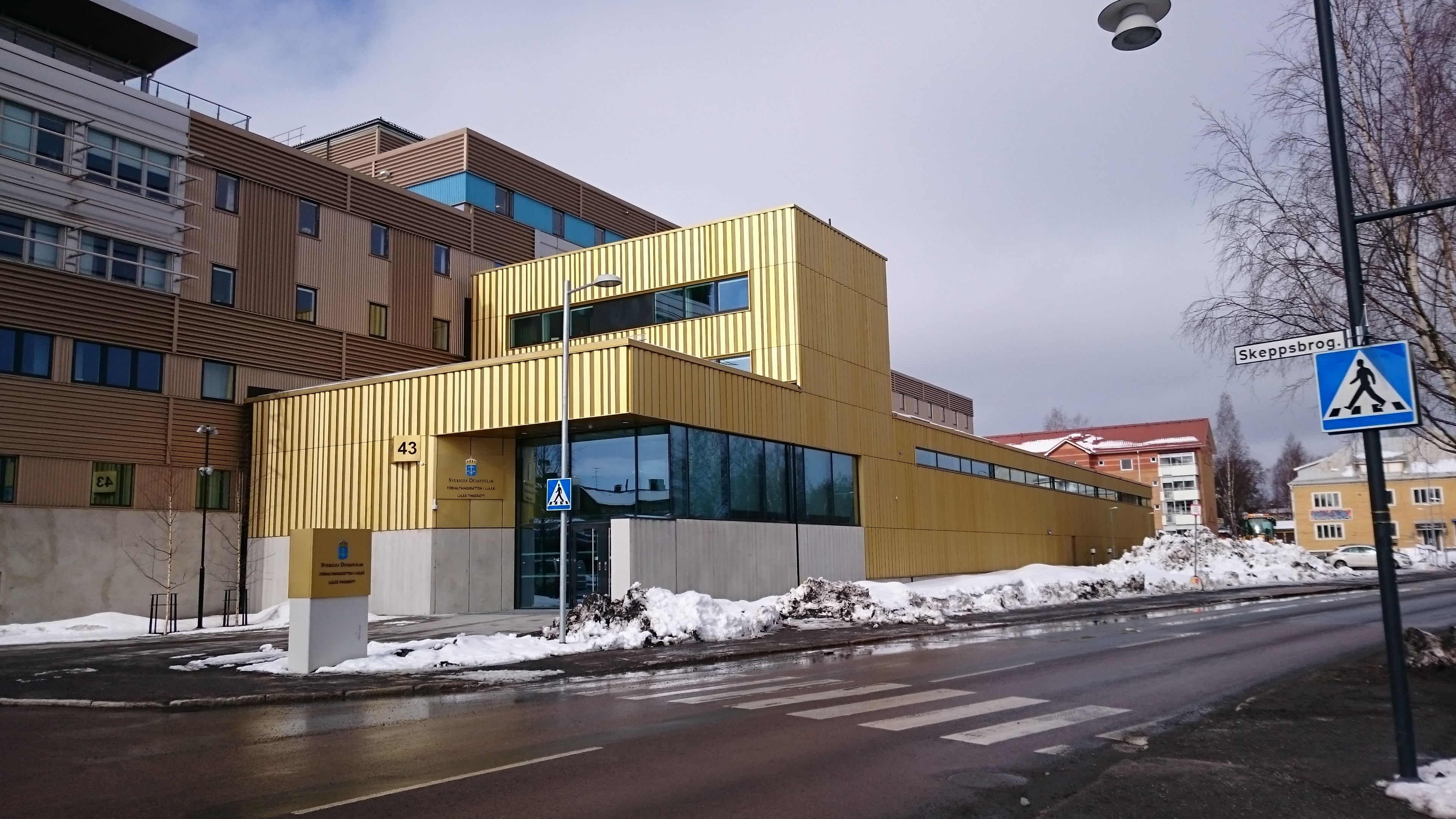 Domstolarnas byggnad i Luleå